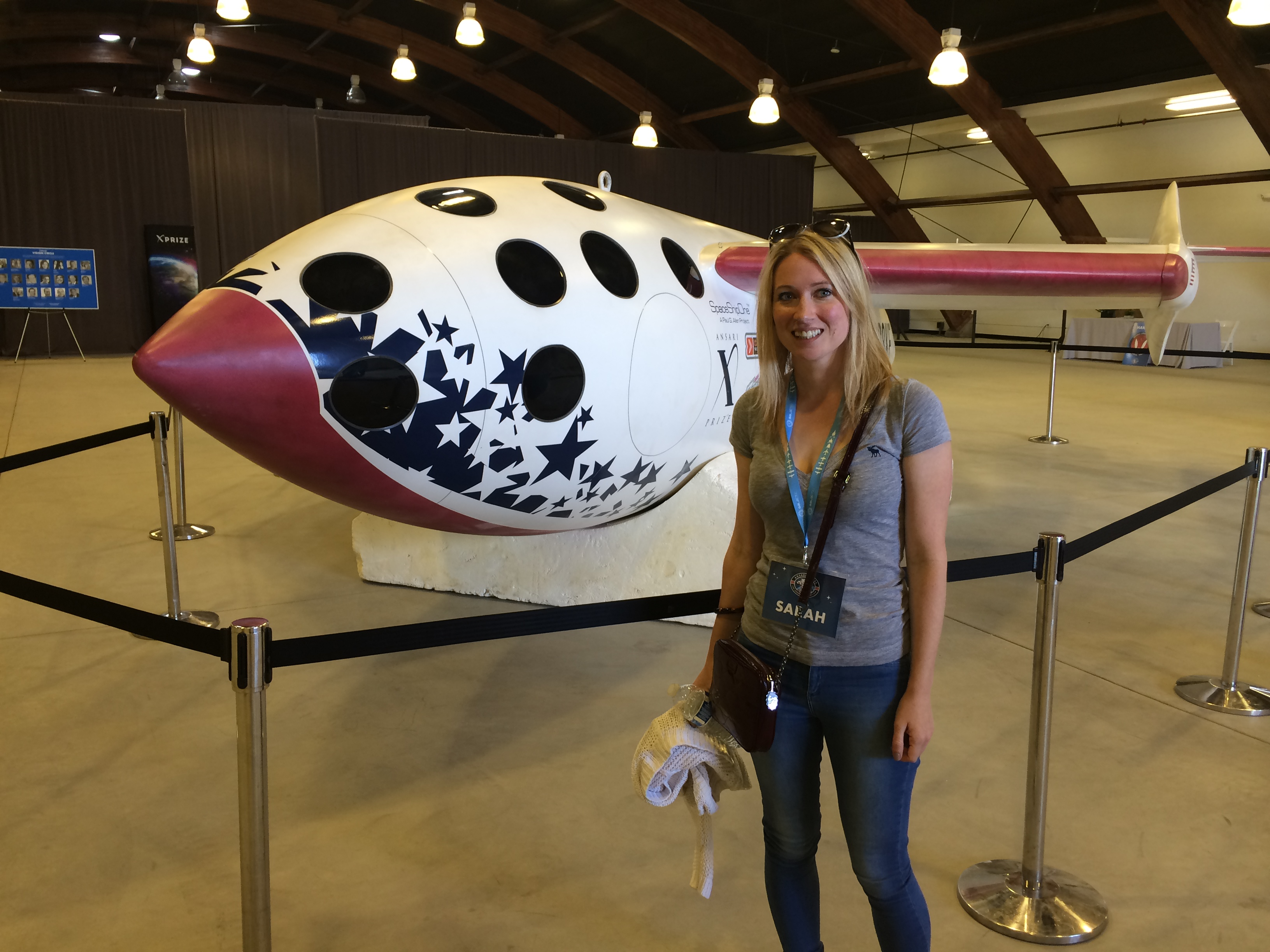 Sarah Cruddas at the Ansari XPRIZE anniversary in Mojave, California.